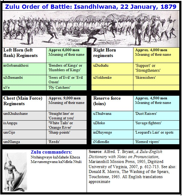 Zulu Order of battle - Isandhlwana- inset picof Shaka is public domain